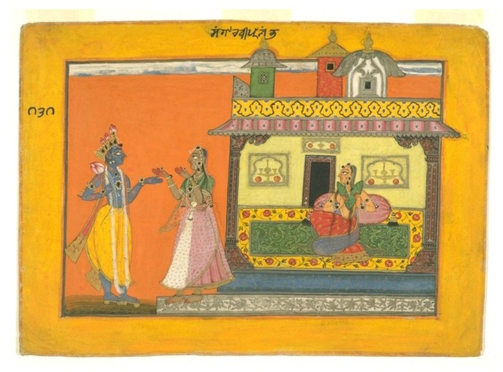 Radha and Krishna in Rasamanjari by Bhanudatta, Basohli, c1670. Opaque watercolour and gold on paper, with applied beetle wing fragments for ornaments.